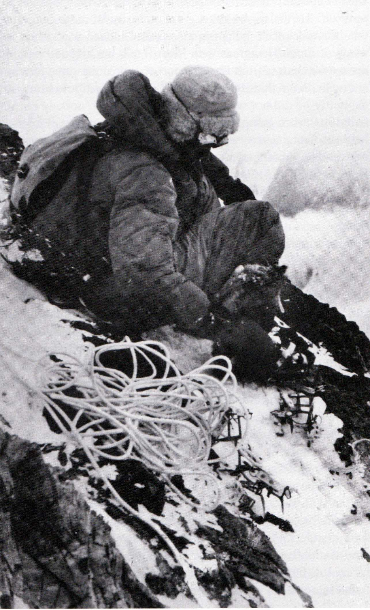 31 July 1954. Photo taken of Lino Lacedellli by Achille Compagnoni at their high camp, Camp IX, before setting out to climb K2 fior the first time. At issue was the time it was taken.